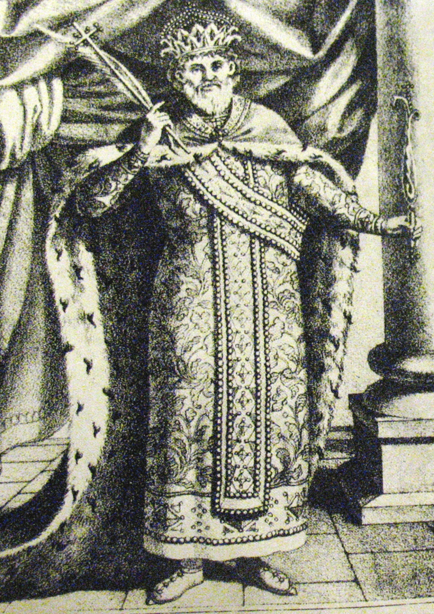 Литография с изображение на цар Асен I от Николай Павлович.